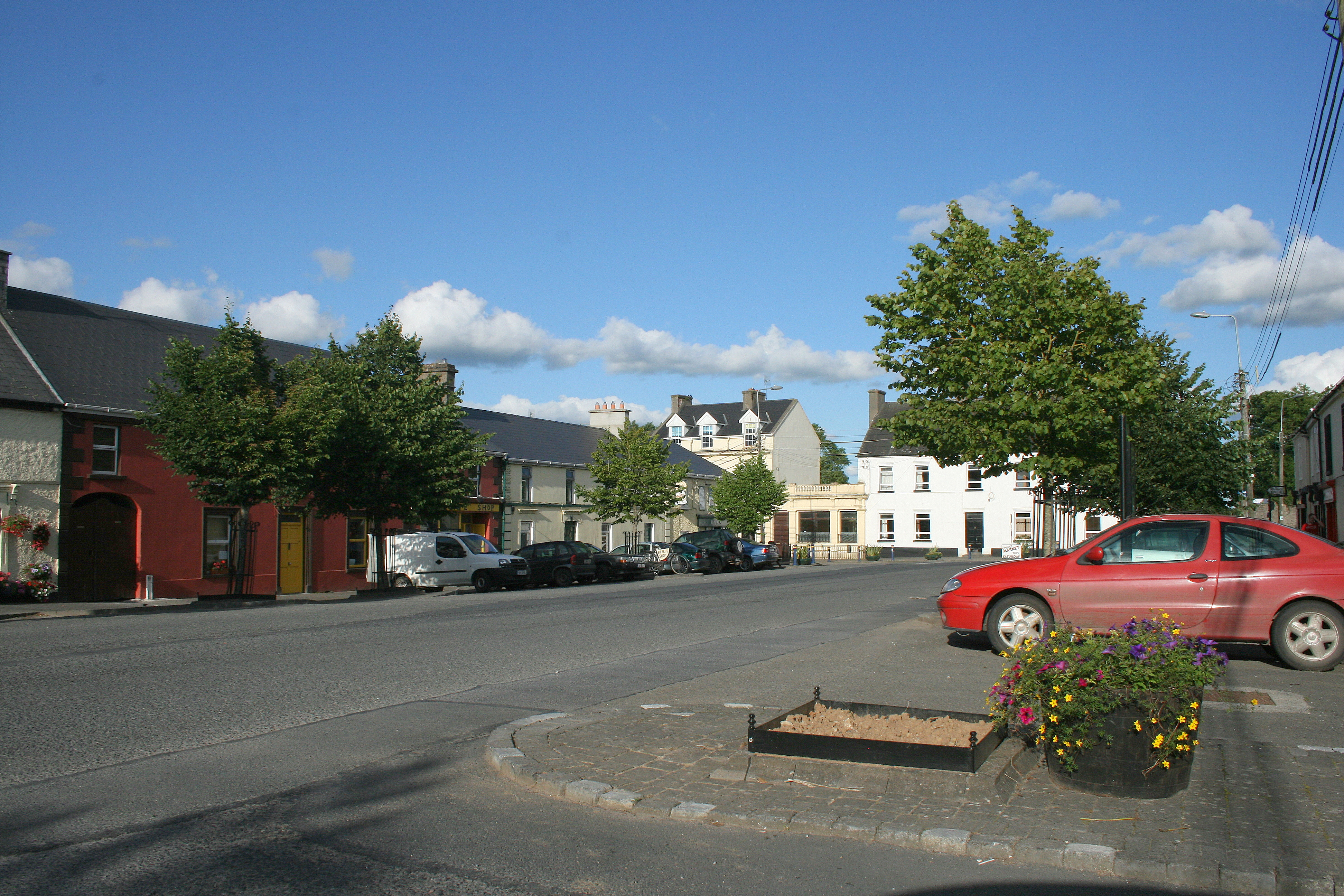 Cloughjordon, County Tipperary.